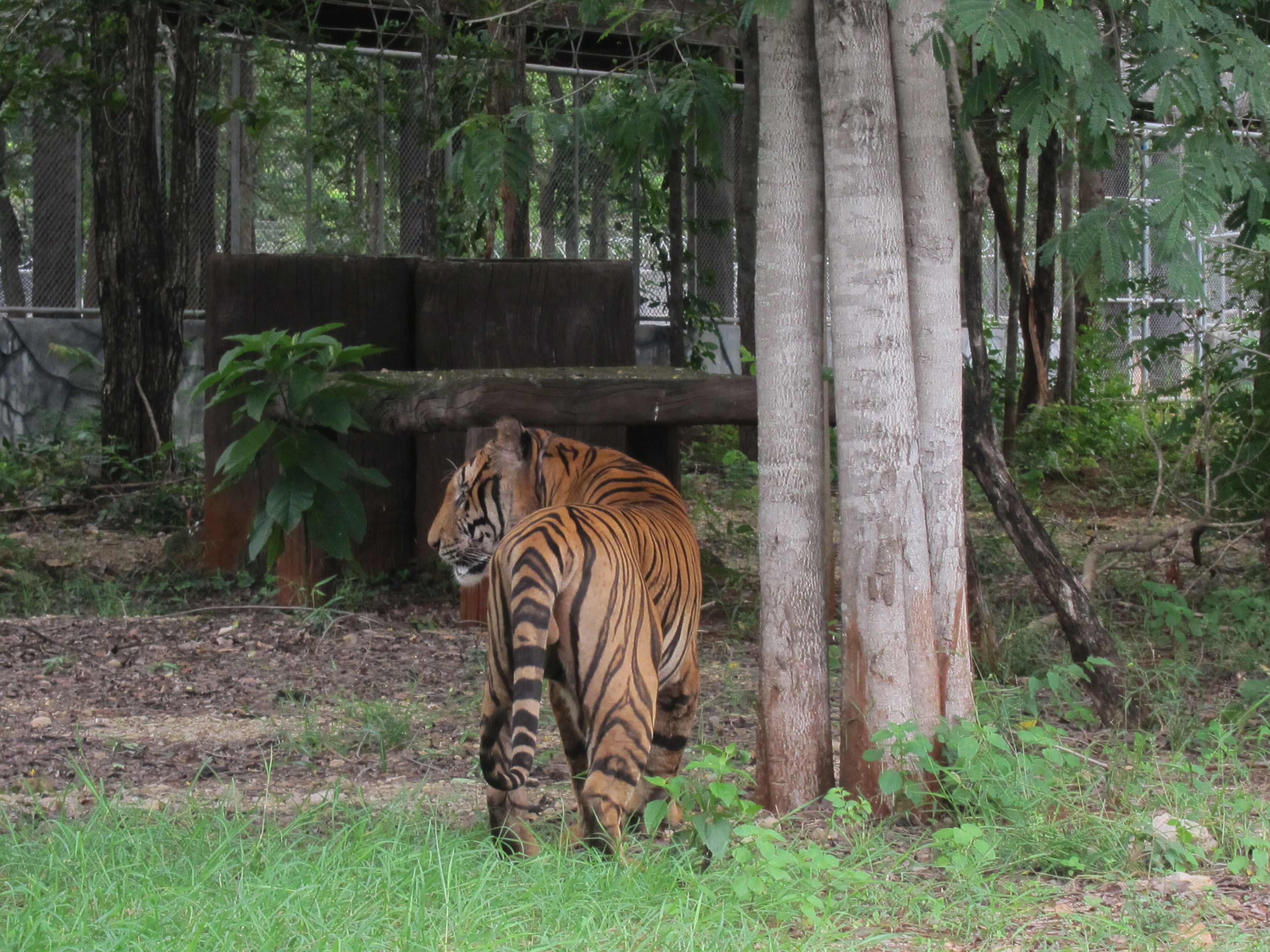 Mek in the enclosure